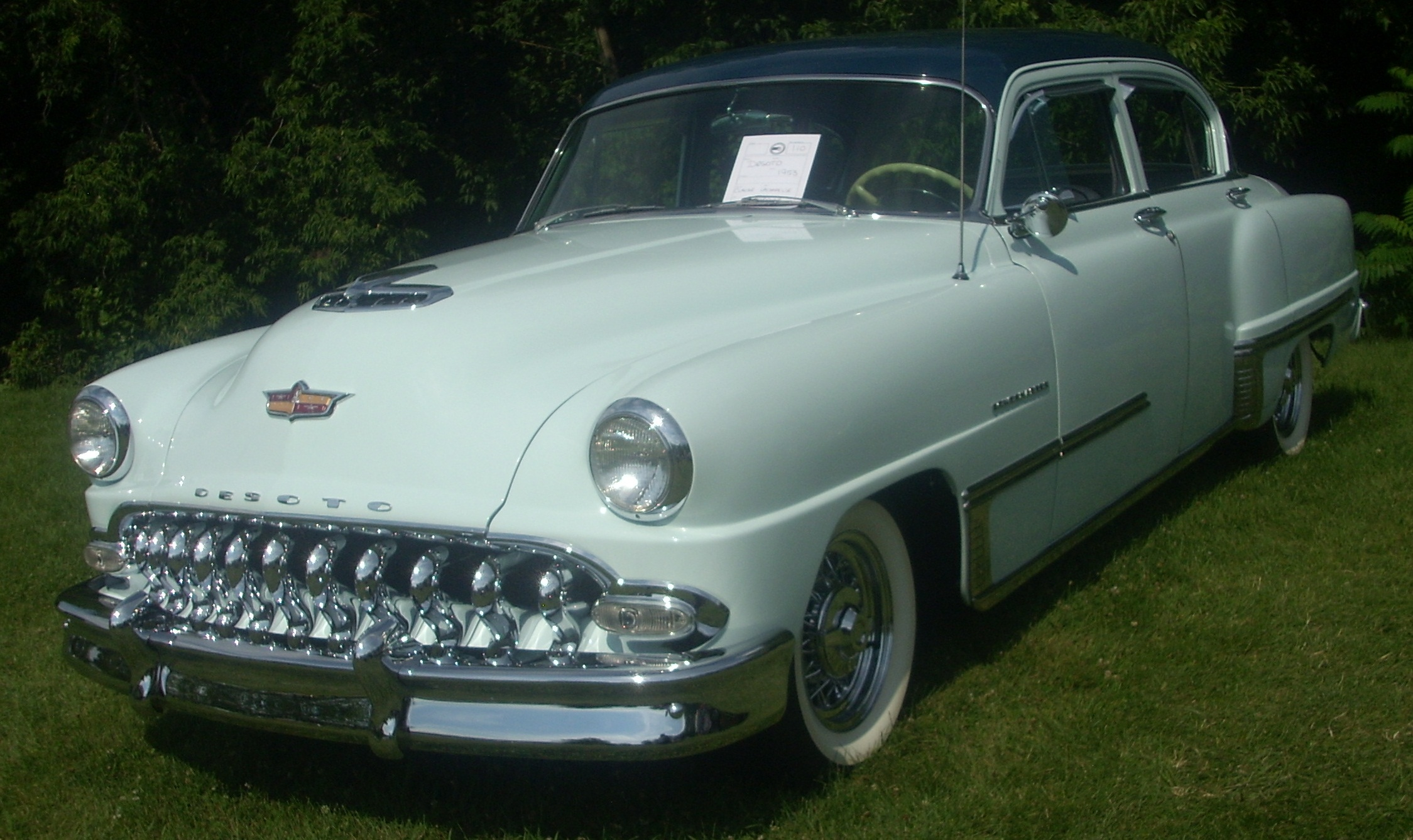 1953 DeSoto Powermaster photographed in Laval, Quebec, Canada at Auto classique Laval 2010.